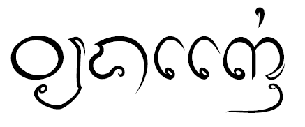 Lanna script – Wiang Kaen is the easternmost district (amphoe) of Chiang Rai Province, northern Thailand.